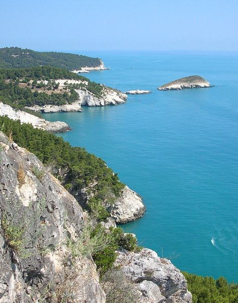 Adriatic Sea coast in Gargano National Park — near Vieste, in Apulia, SE Italy.